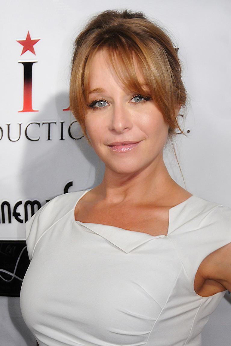 Jamie Luner attending Luisa Diaz's Havana White Party at Berri's Cafe in Los Angeles, California on August 27, 2014 - Photo by Glenn Francis and